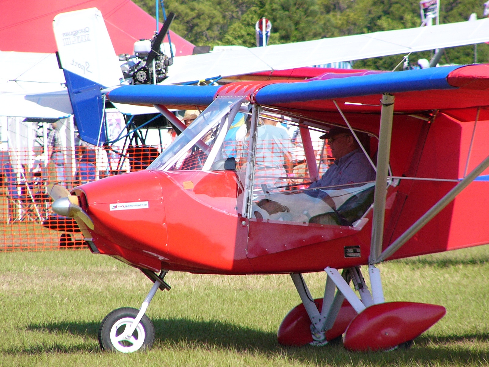 A Raj Hamsa Ultralights X-AIR H Hanuman at Sun 'n Fun 2004